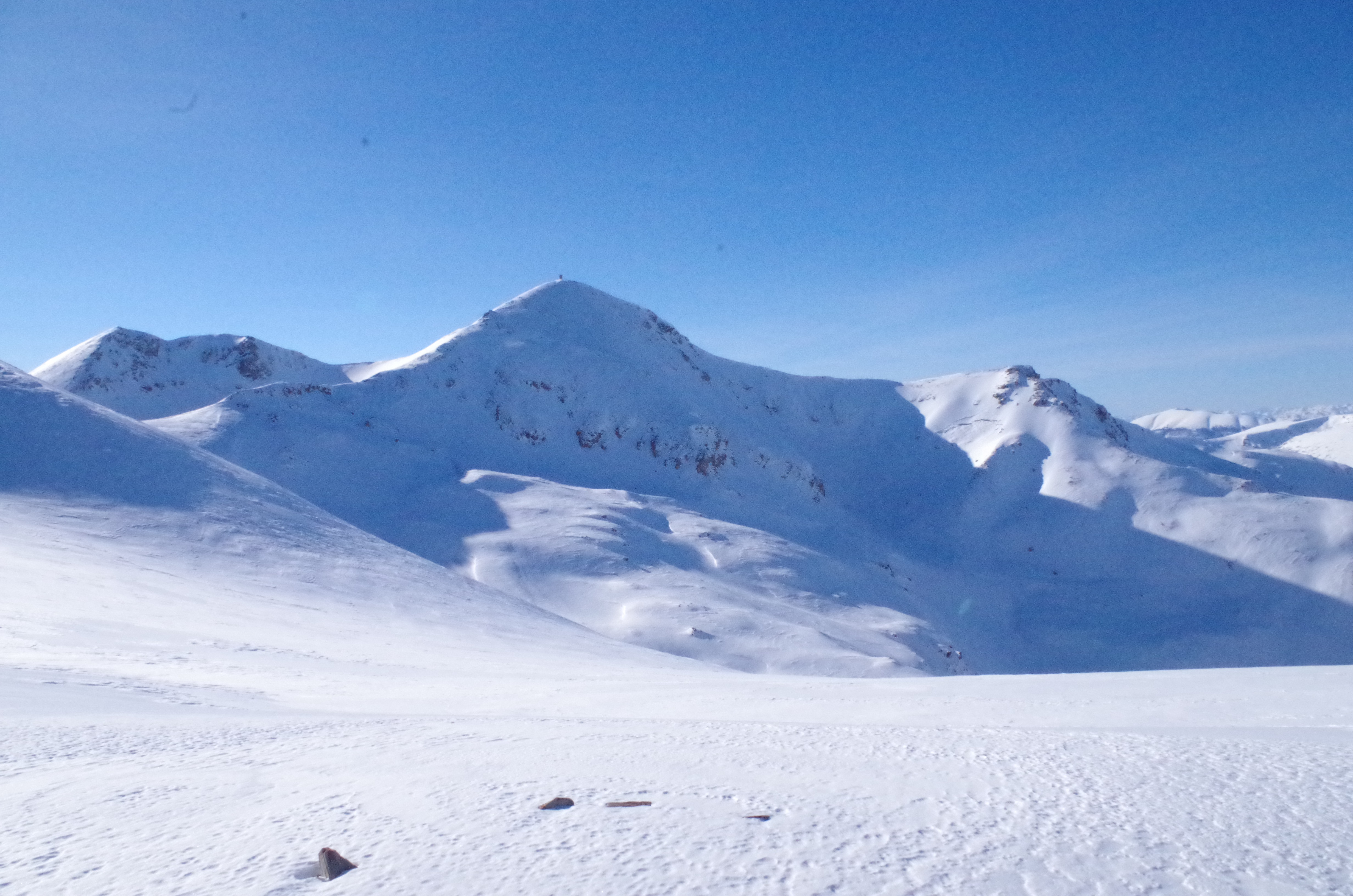 Titov Vrv peak on Shar Mountain, Macedonia (In loving memory of Pero Atanasov - Crna Strela)